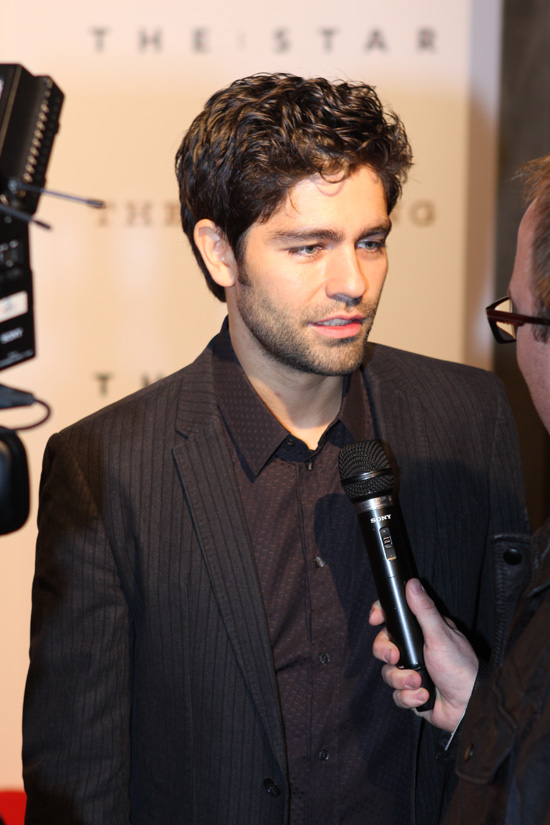 Stevie Wonder Media Frenzy Star City Lyric Theatre; Red Carpet Report, by Eva Rinaldi - 25th October 2011 Stevie Wonder was the headline act tonight, as he performed to an intimate audience of 2000 patrons, paying between $225 to $455 to see the music legend close up. Around the corner on the red carpet, news media waited for the celebs. The name listed included Jennifer Hawkins and Jake Wall, Kate Richie and Stuart Webb, Wendell Sailor and wife Tara, Ricki-Lee Coulter and boyfriend Richard Harrison. Does anyone know how much the celebs are getting paid to turn up to Star invites, or is it just a win - win, all done to generate positive media buzz? Finally, after what seemed like hours for Russell Crowe and beautiful wife, Danielle Spencer did the red, fresh off dinner at the revamped casino aka integrated entertainment complex. For the record, Stevie Wonder did not do the red carpet. Promoters across Australia, if not the world, are attempting to find out how much money Mr Wonder is making for his intimate appearances at The Star, and that's likely to be something that is kept well under wraps for a while yet. The Star may be a bit of a media darling at the moment, but nothing lasts forever. The Star would do well to go out of their way to also impress news media who have been quite supportive of the Echo Entertainment owned complex, since they first announced it was going to get a massive makeover. We've heard that the next trump card for more news headlines will be the official opening of The Darling, the 5 star boutique lifestyle hotel and spa. Just how long it may take The Star to recoup its almost billion dollar casino revamp investment is unknown, but Echo Entertainment looks to be in this for the long haul, so good on them. Websites The Star Echo Entertainment The Darling Eva Rinaldi Photography Eva Rinaldi Photography Flickr Casino News Media Splash News